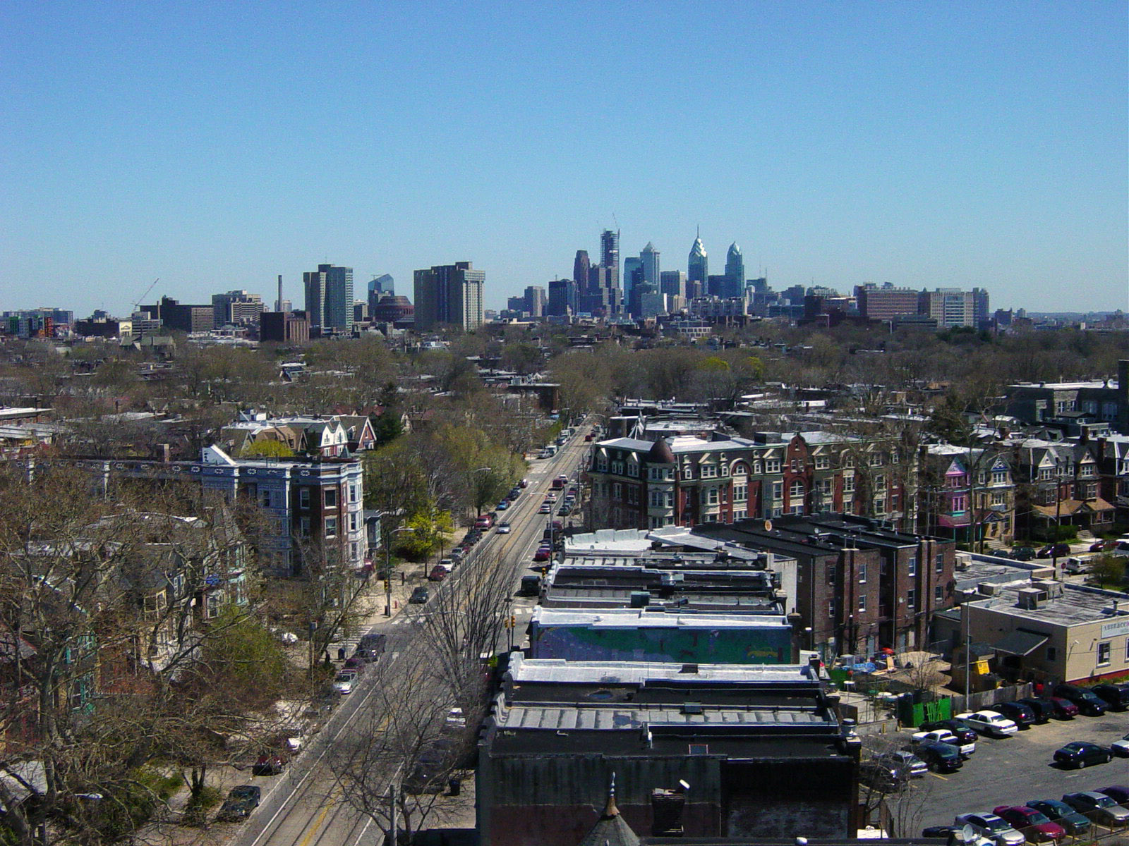 West Philadelphia, view down Baltimore Avenue from 48th towards Center City. Photo taken from atop Calvary United Methodist Church.